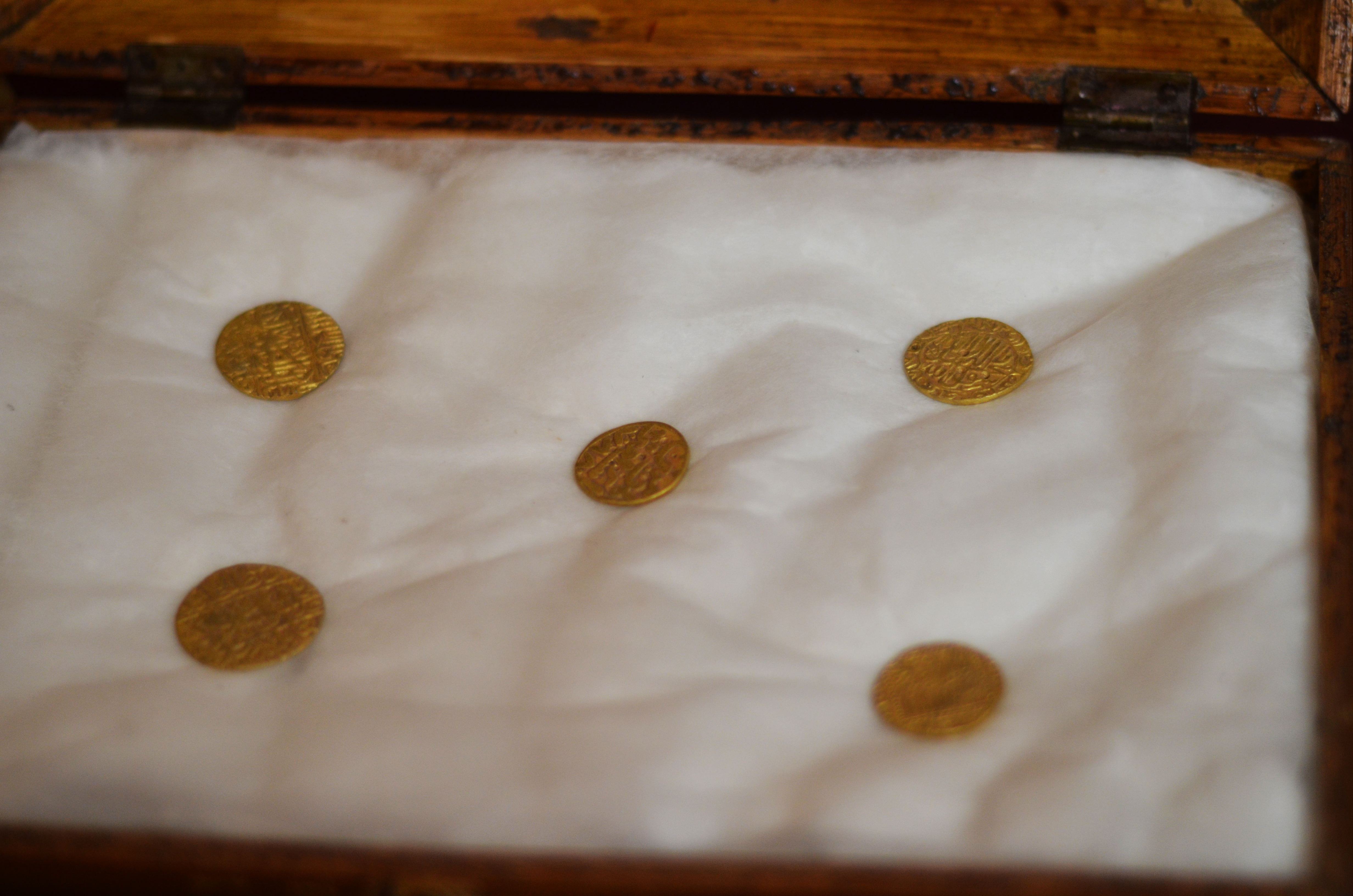 Mughal coins of Humayun, Akbar, Shah Jahan, Aurangjeb, Shah Alam, Alamgiri II of 1530-1806.